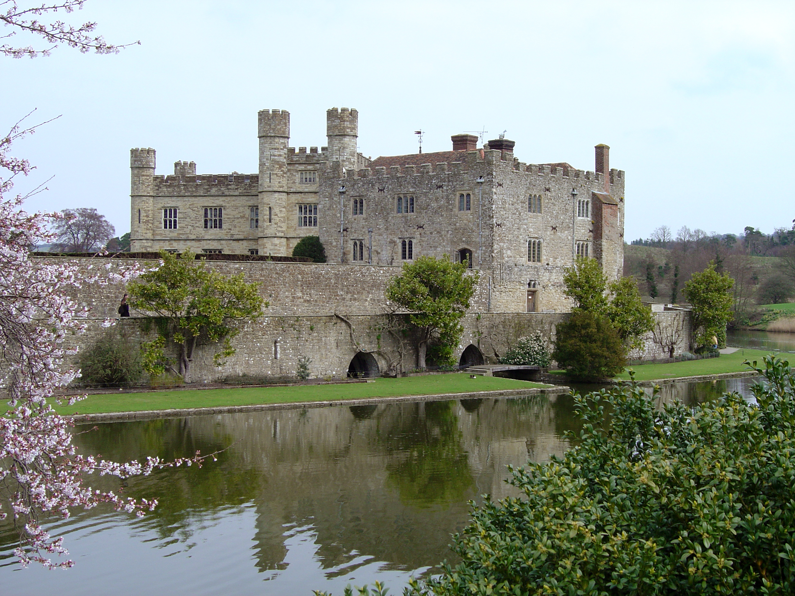 Leeds Castle